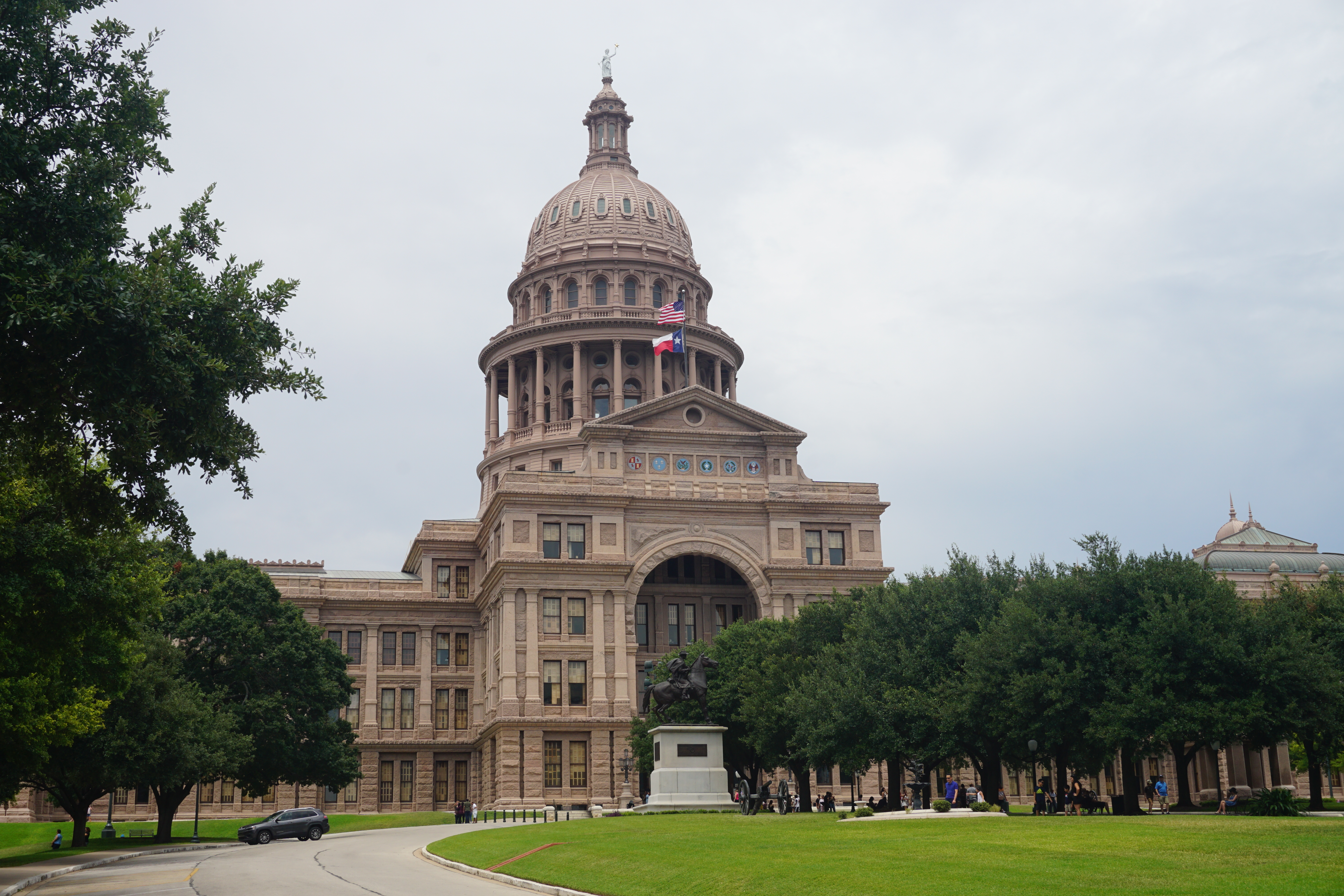 The Texas State Capitol in Austin, Texas (United States).